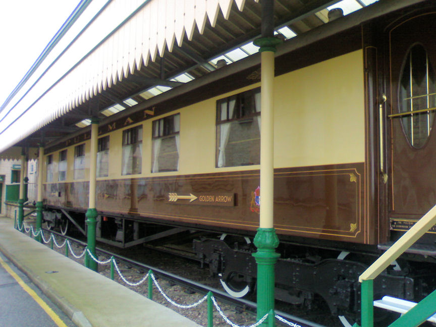 Restored Golden Arrow Pullman car Orion at Pecorama, Beer, Devon, UK. In season, this elegant passenger carriage is used as a restaurant. Pecorama is a popular tourist attraction with cliff-top gardens, working miniature ride-on steam railway and model railway exhbitions. Peco N Gauge railway products are made here too.